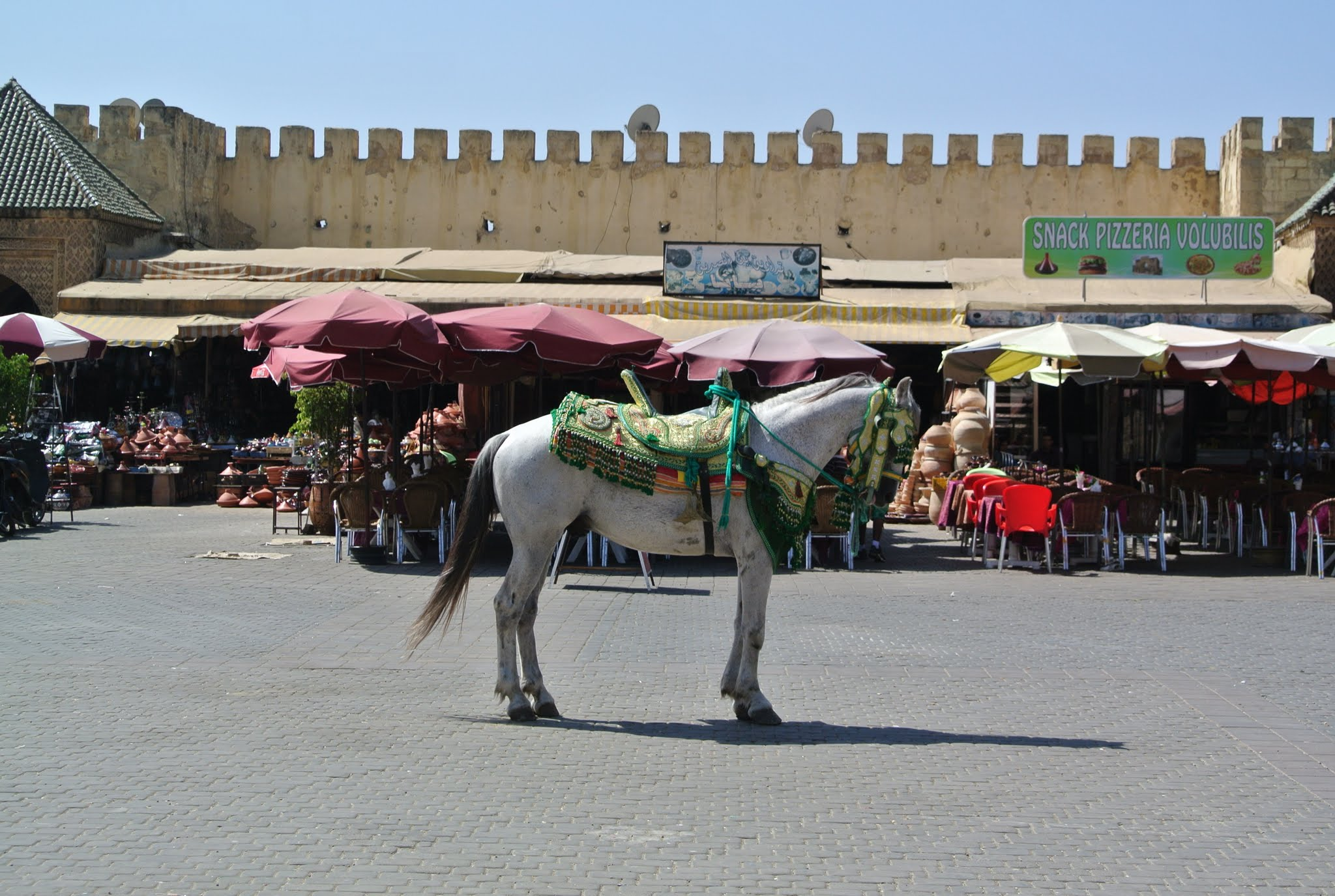 Medina, Meknes, Morocco